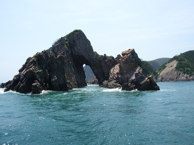 Fantastic Rocks near Hong-do Island